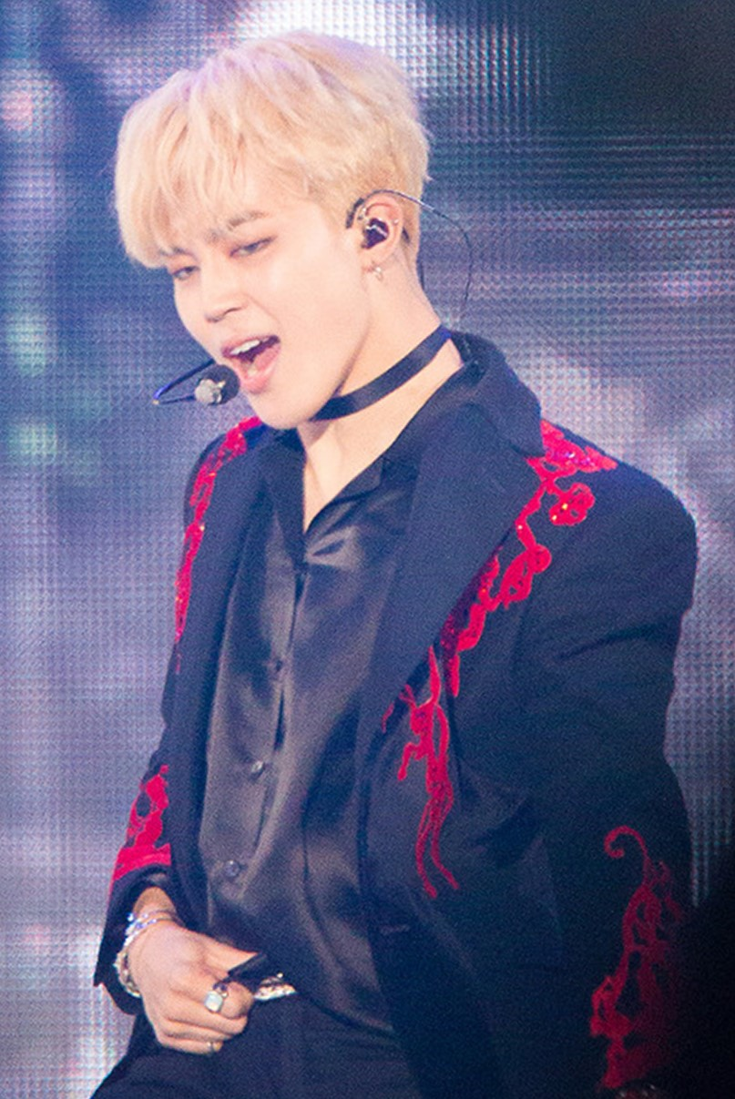 Park Ji-min at 8th Melon Music Awards on November 19, 2016.